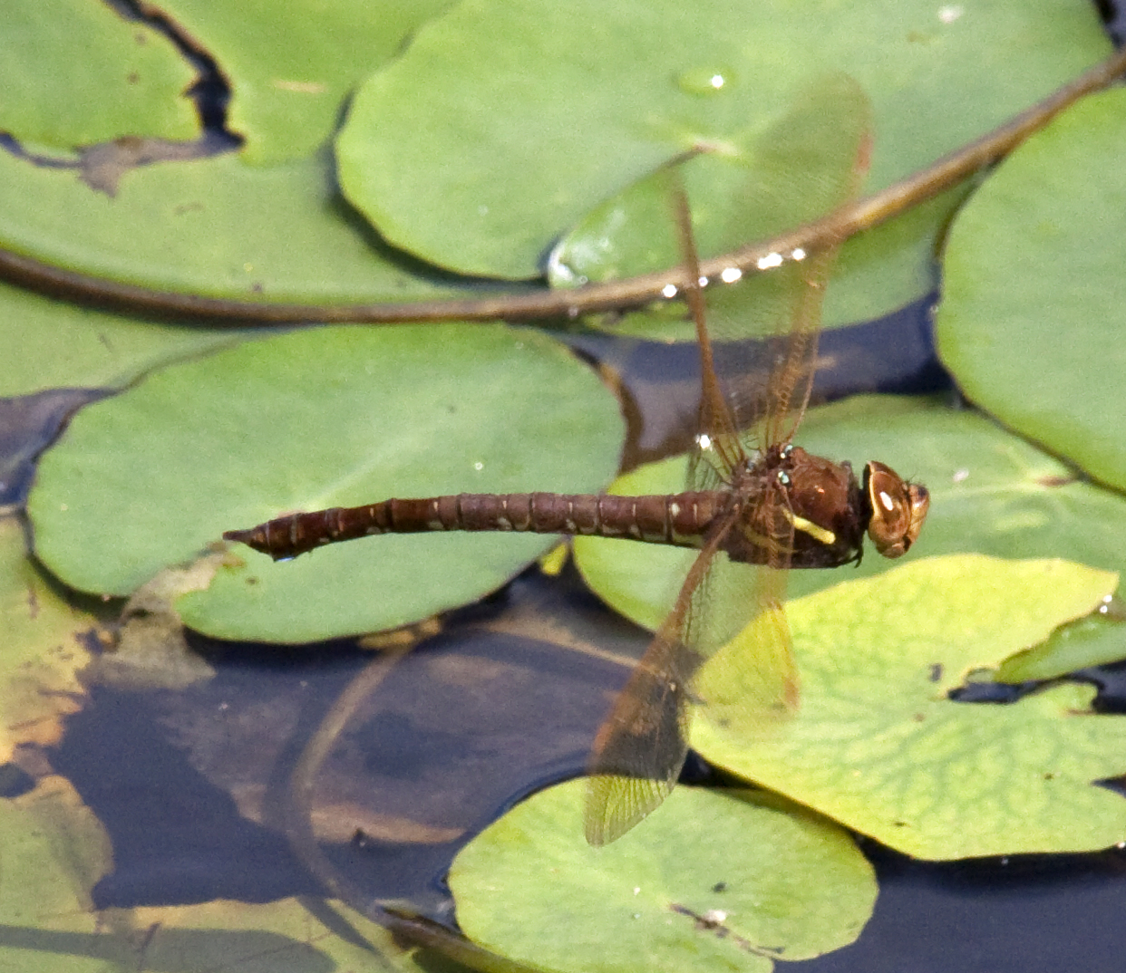 "Aeshna grandis female